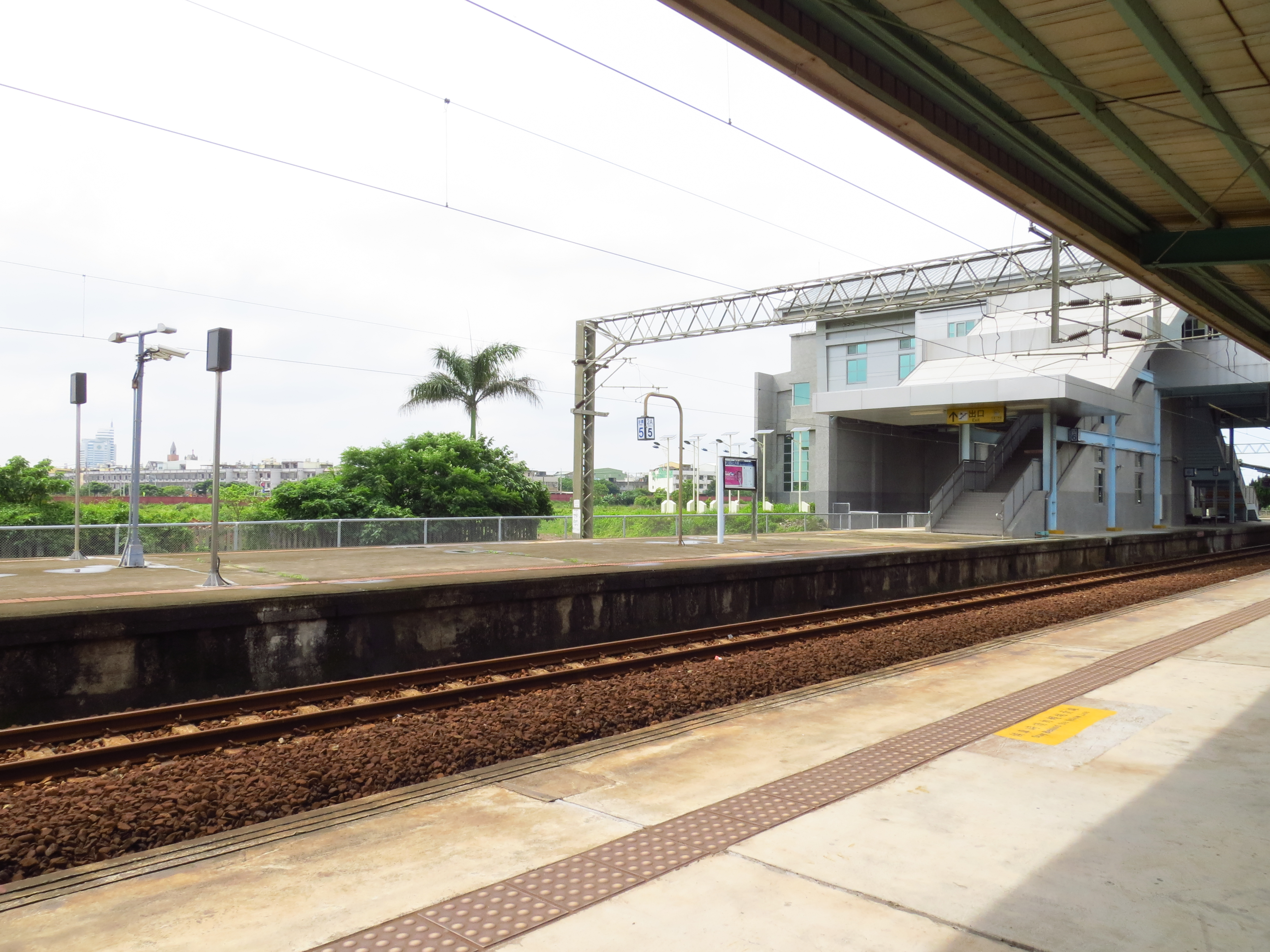 Shalu Station, Taichung, Taiwan.